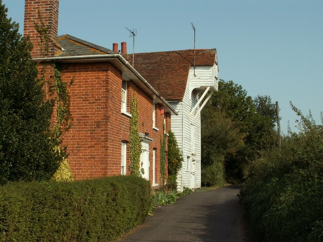 Old Mill and Mill House at Thorington Street, Suffolk.